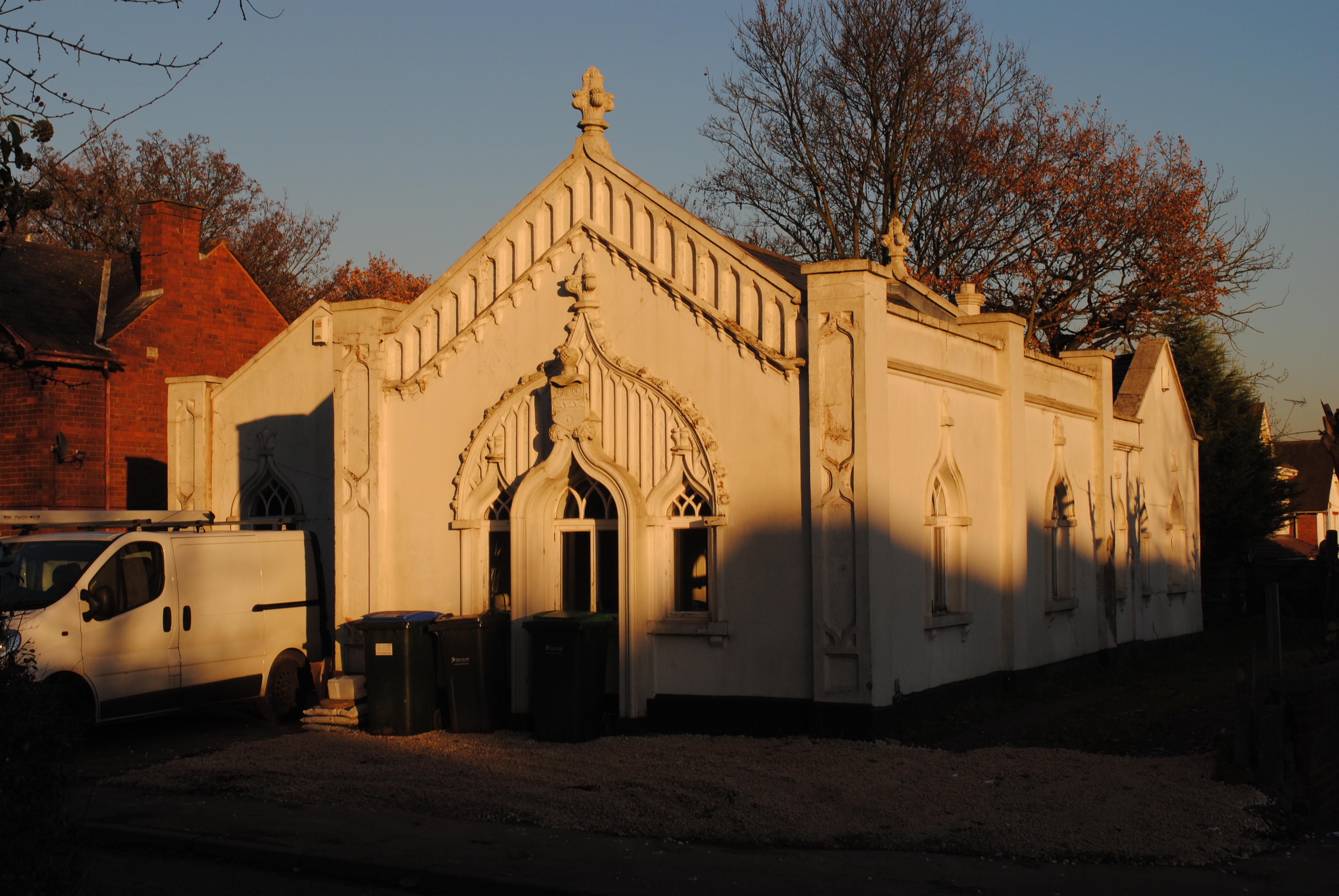 Handsworth Lodge, Queslett Road, Great Barr, West Bromwich, England. The Lodge served Great Barr Hall. Photographed in low winter sun.